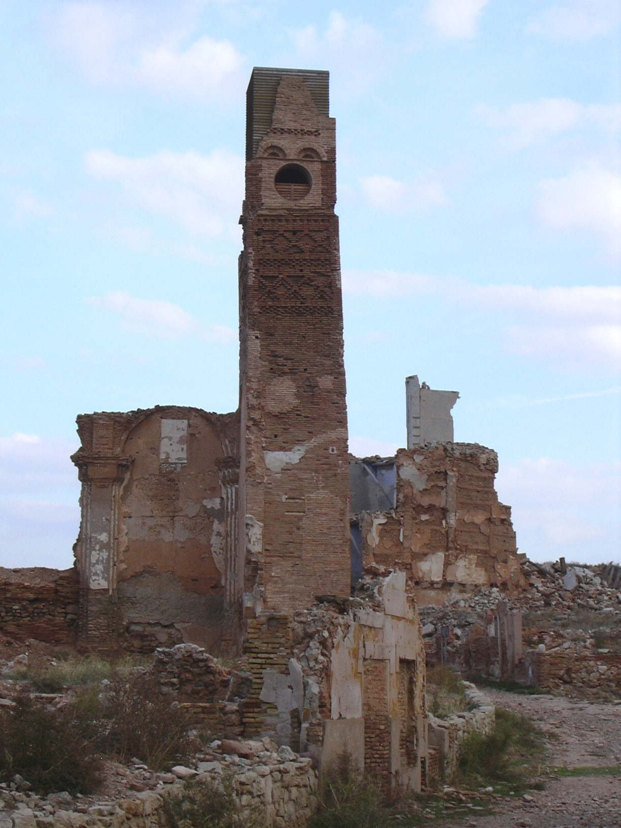 Belchite - Town in Aragon, Spain - Destroyed during the Spanish Civil War (1937), was not rebuild and stayed as monument